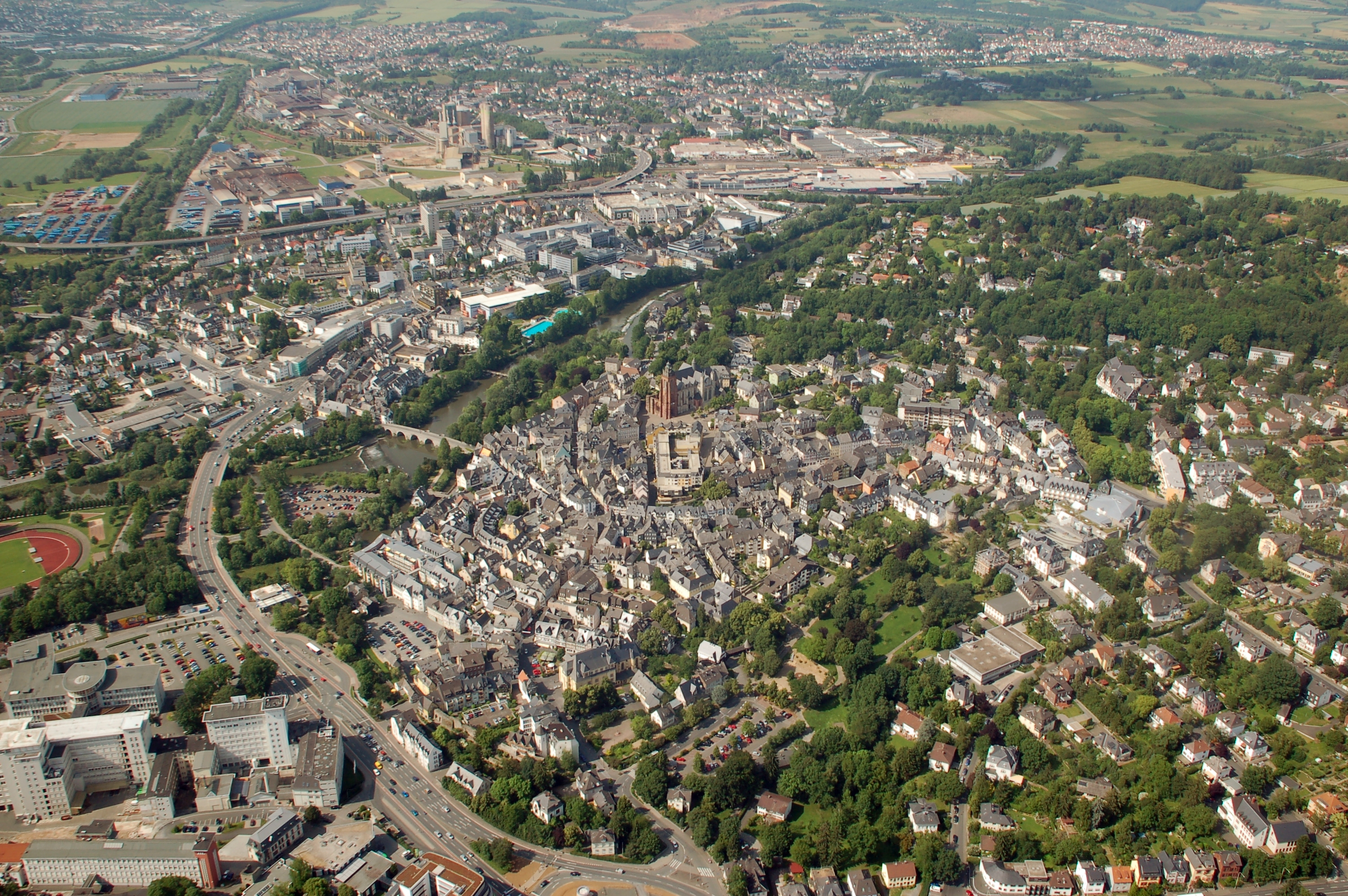 Aerial photograph of Wetzlar, Hessen, Germany